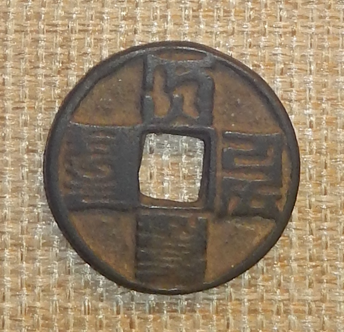 Yuan dynasty bronze coin with inscription Dayuan Tongbao (大元通寶) in the Phags-pa script (ꡈꡗ ꡝꡧꡦꡋ ꡉꡟꡃ ꡎꡓ). Held at the Nationalities Museum of the Inner Mongolia University (内蒙古大学民族博物馆), Hohhot, Inner Mongolia, China.